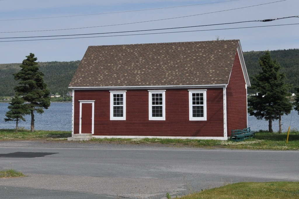 Otterbury School House, Harbour Grace, Newfoundland.